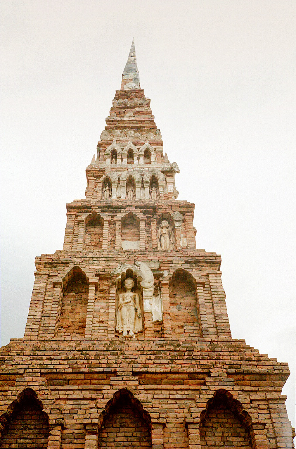 Suwanna Chedi (Dvaravati style) in Wat Phrathat Hariphunchai, Lamphun, northern Thailand.